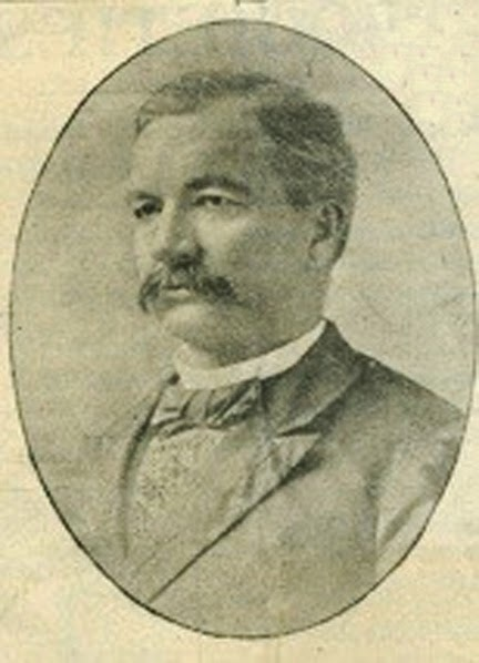 Asa C. Matthews